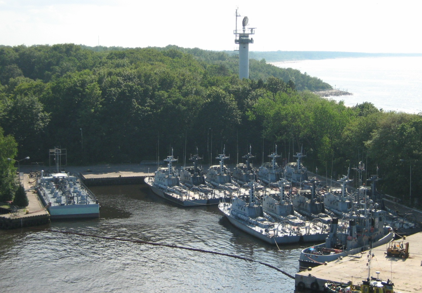 Naval base in Kołobrzeg, Poland - Project 918 (Pilica class) ASW craft (all decommissioned by 2009).